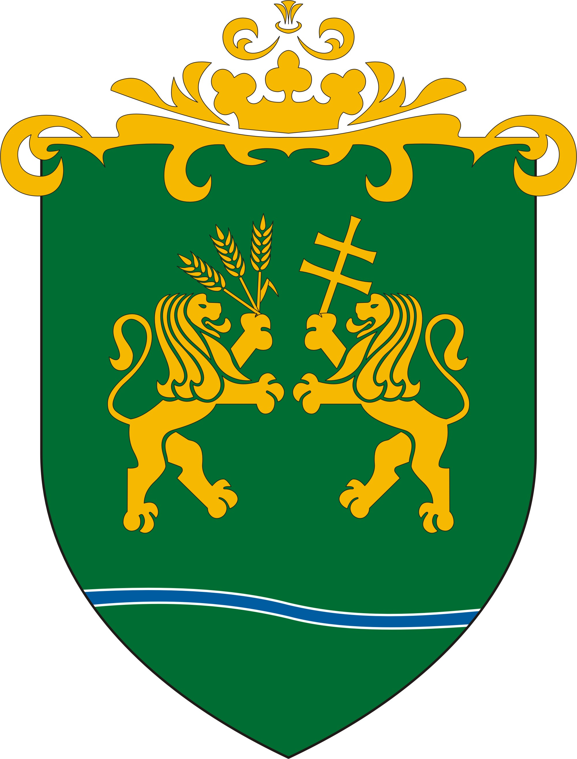 Coat of arms of Kamut, Hungary